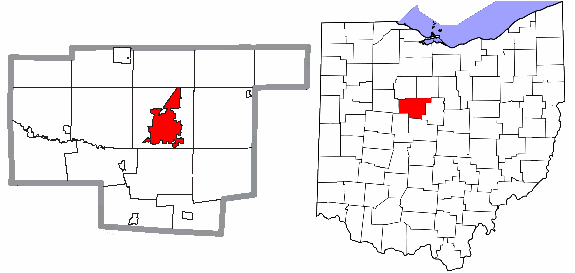 Map highlighting City of Marion, Marion County, Ohio, United States.